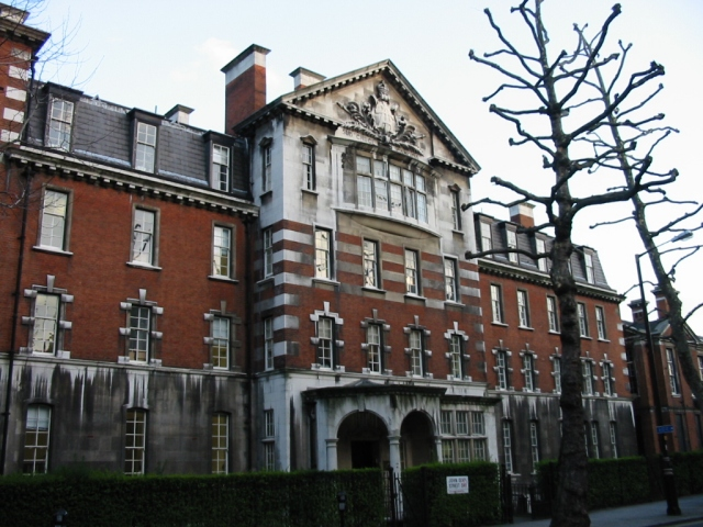 Under The White Cross Sub Cruce Candida - motto of the Queen Alexandra's Royal Army Nursing Corps translates as Under the White Cross. Pictured is the Queen Alexandra's Military Hospital Millbank on John Islip Street now owned by Chelsea College of Art and Design.